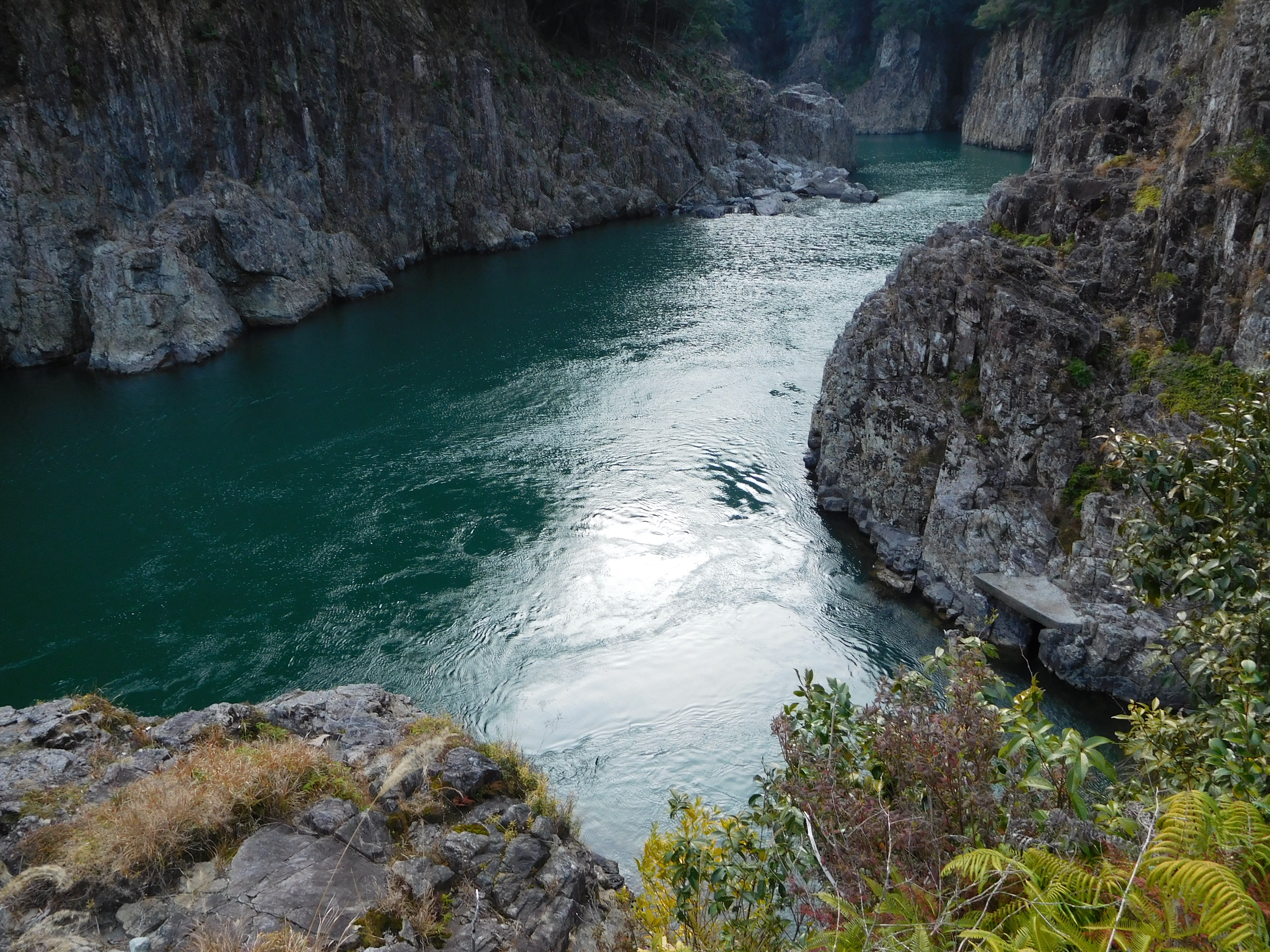 Here is Nara-Mie-Wakayama border in Japan. I took photo from Totsukawa village, Nara, Japan.